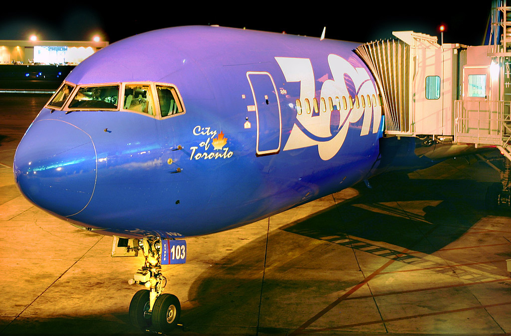 This image was taken by Martin J.Galloway. Donated from the British Photo Encyclopedia Dotonegroup : talk. Zoom Airlines Boeing 767 Model 306 ER, registration number C-GZNA, standing at the International Pier, Toronto International Airport, June 2006.